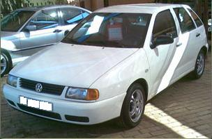 A South African Volkswagen Polo Playa in Candy White